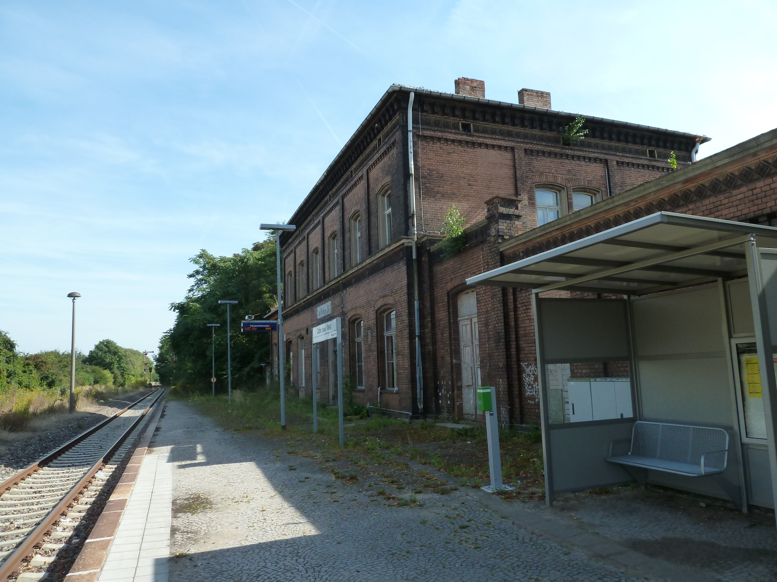 Train station Calbe (Saale) West, view from platform side